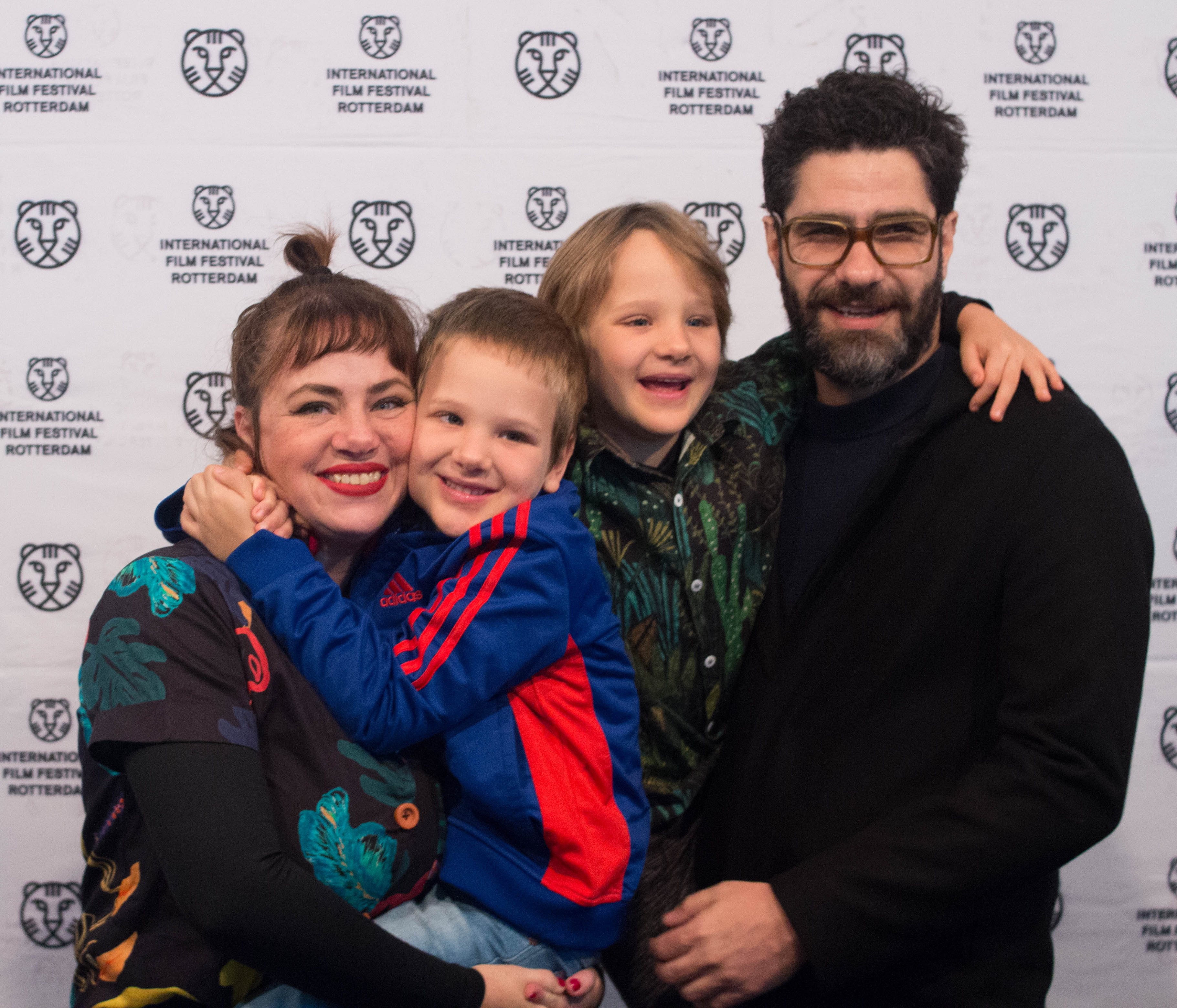 IFFR premier of 'loveling'